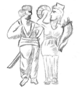 King Abdagases beeing crowned by the Greek goddess Tyche, on the reverse of some of his coins. Photographic reference: "The dynastic art of the Kushans", Rosenfield, figures 278-279